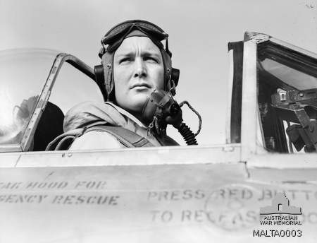 Squadron Leader Peter Raw in the cockpit of a Vampire aircraft while serving with No. 2 Operational Conversion Unit